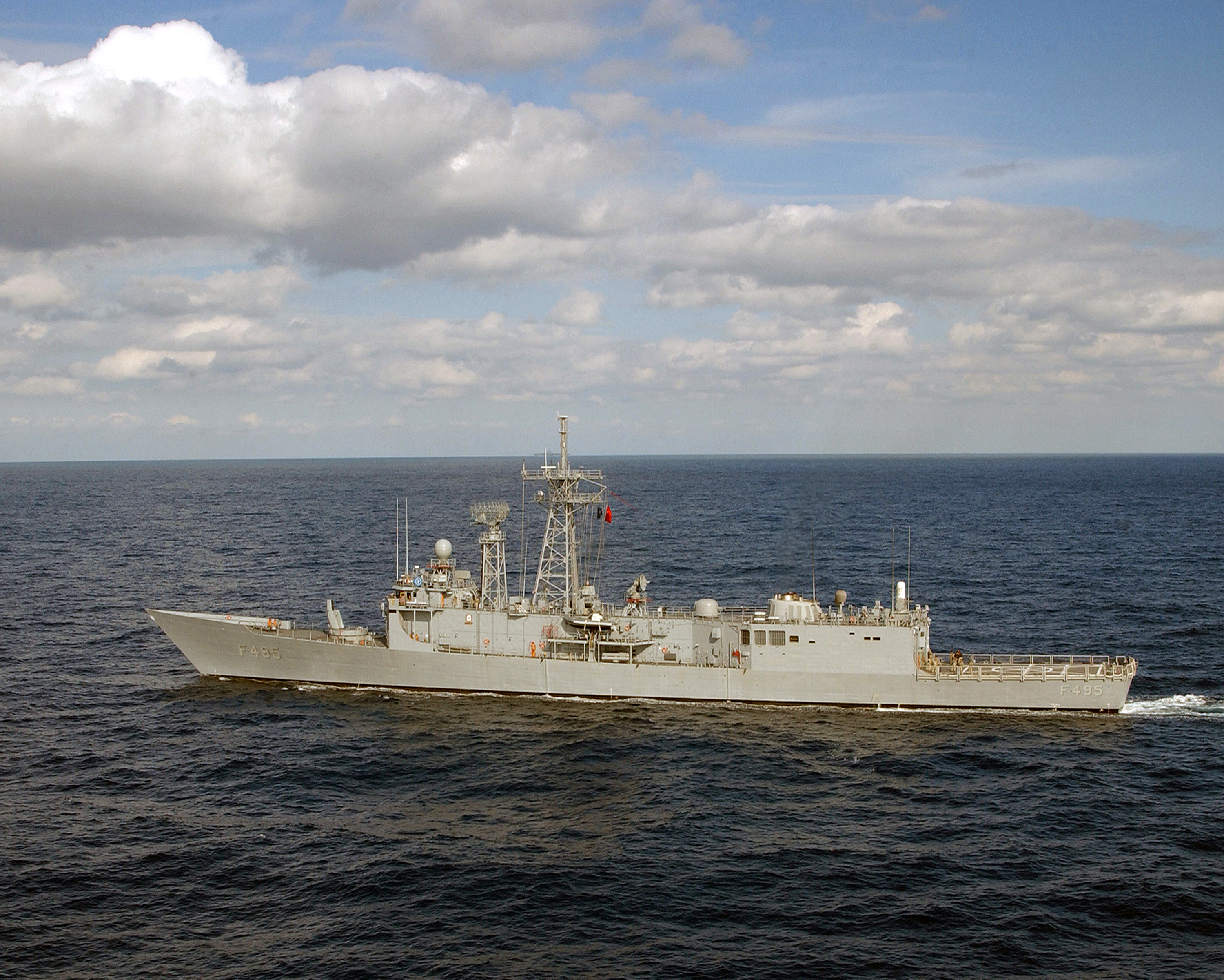 At sea aboard USS Harry S. Truman (CVN 75) Jan. 22, 2003 -- Turkish NATO Oliver Hazard Perry-class frigate TCG Gediz (F-495) operates near USS Harry S. Truman. Truman and Carrier Air Wing Three (CVW-3) are deployed on a regularly scheduled six-month deployment in support of Operation Enduring Freedom. U.S. Navy photo by Photographer's Mate 2nd Class John L. Beeman. (RELEASED)